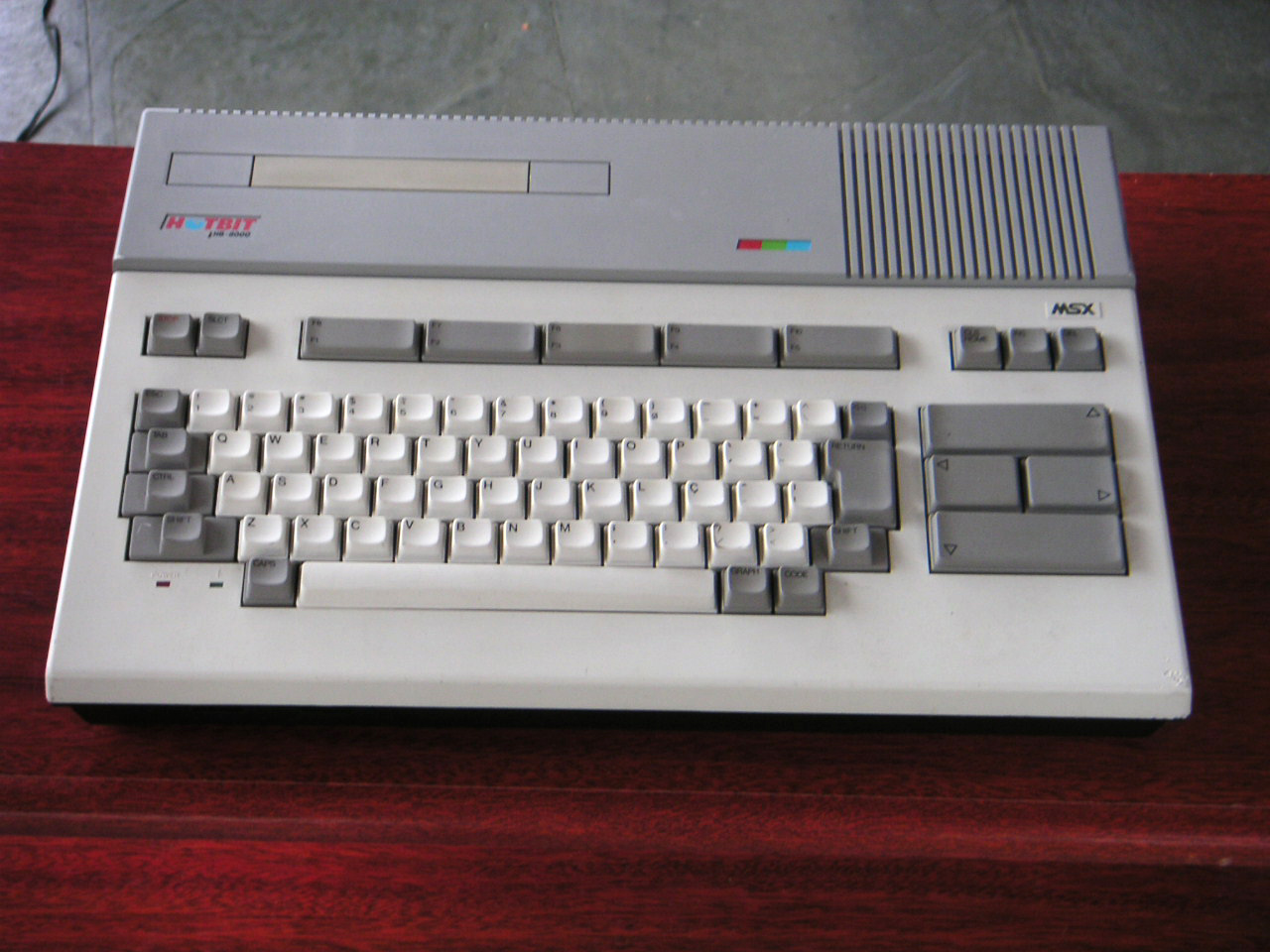 Brazilian Z80 MSX home computer from the 1980s.